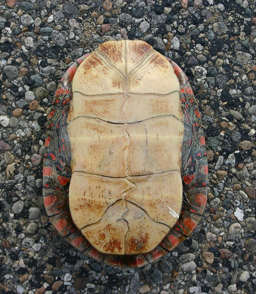 Chrysemys Picta Marginata (Painted Turtle) plastron